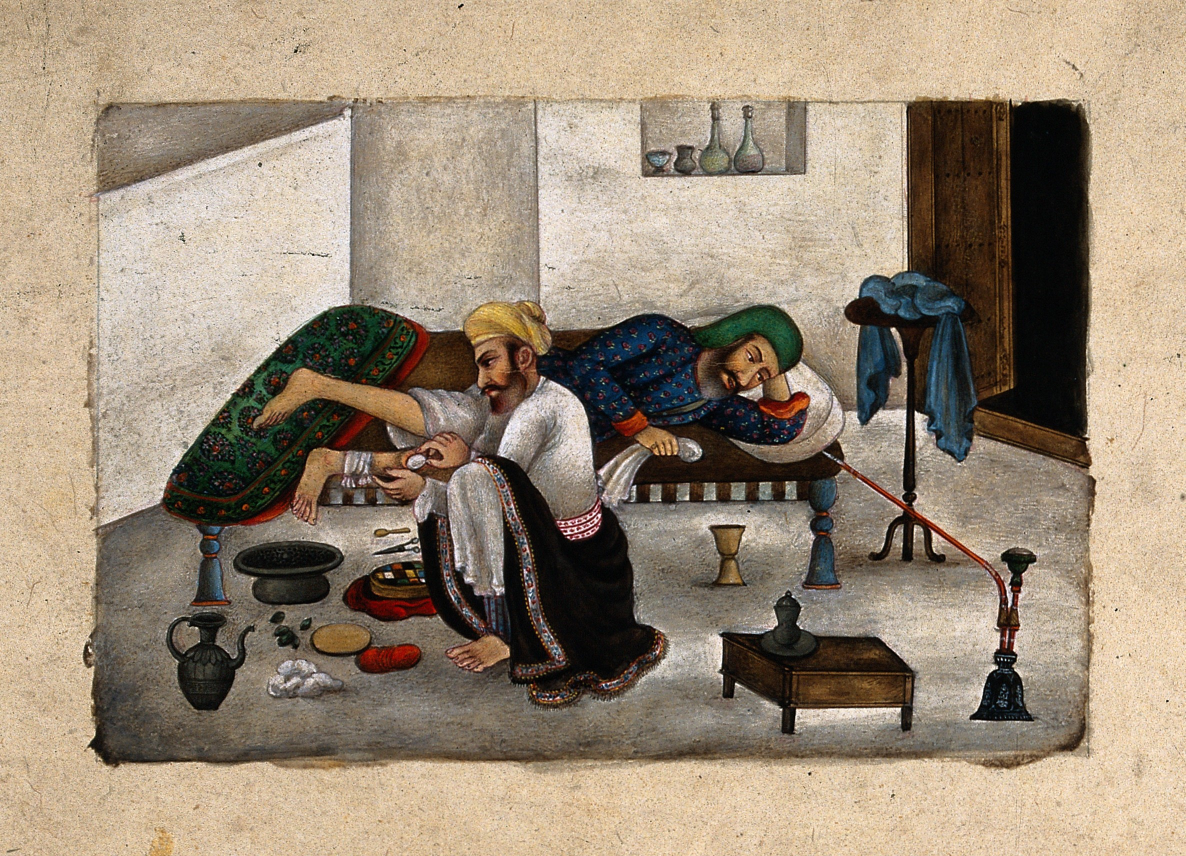 Ayurvedic medicine. Indian Watercolour: 'Man of the Medical caste, masseuse. Iconographic Collections Keywords: Medicine; India; ayurvedic; watercolour